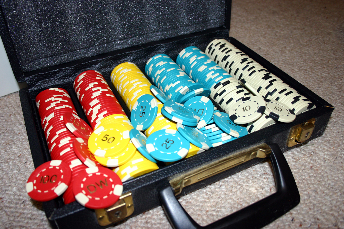 A set of poker chips with denominations 100, 50, 25 & 10. These are my chips and I photographed them.